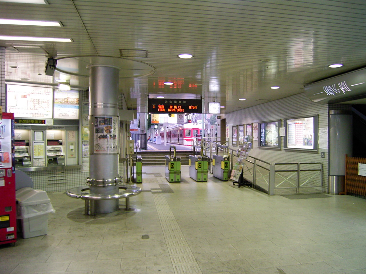 Arima Onsen Station, Hyogo, Japan